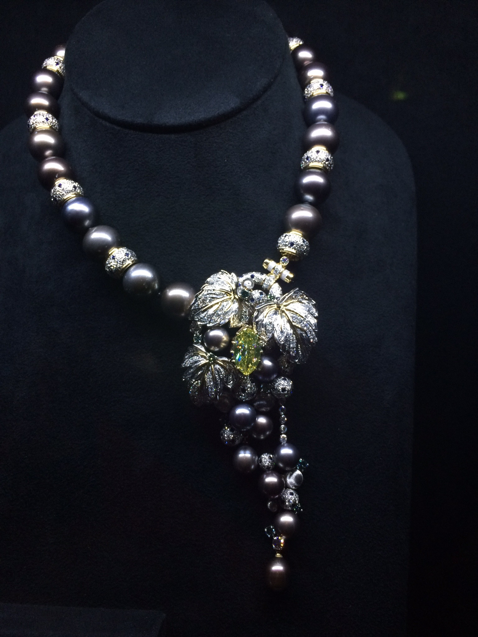 necklace